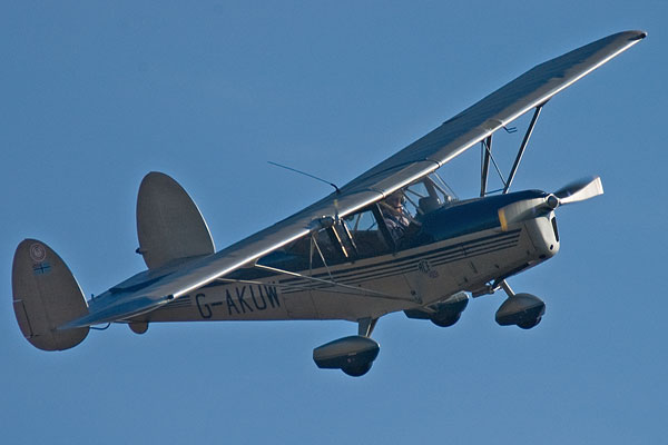 G-AKUW, C.H.3 Series 2 Super Ace, four-seat light aircraft.